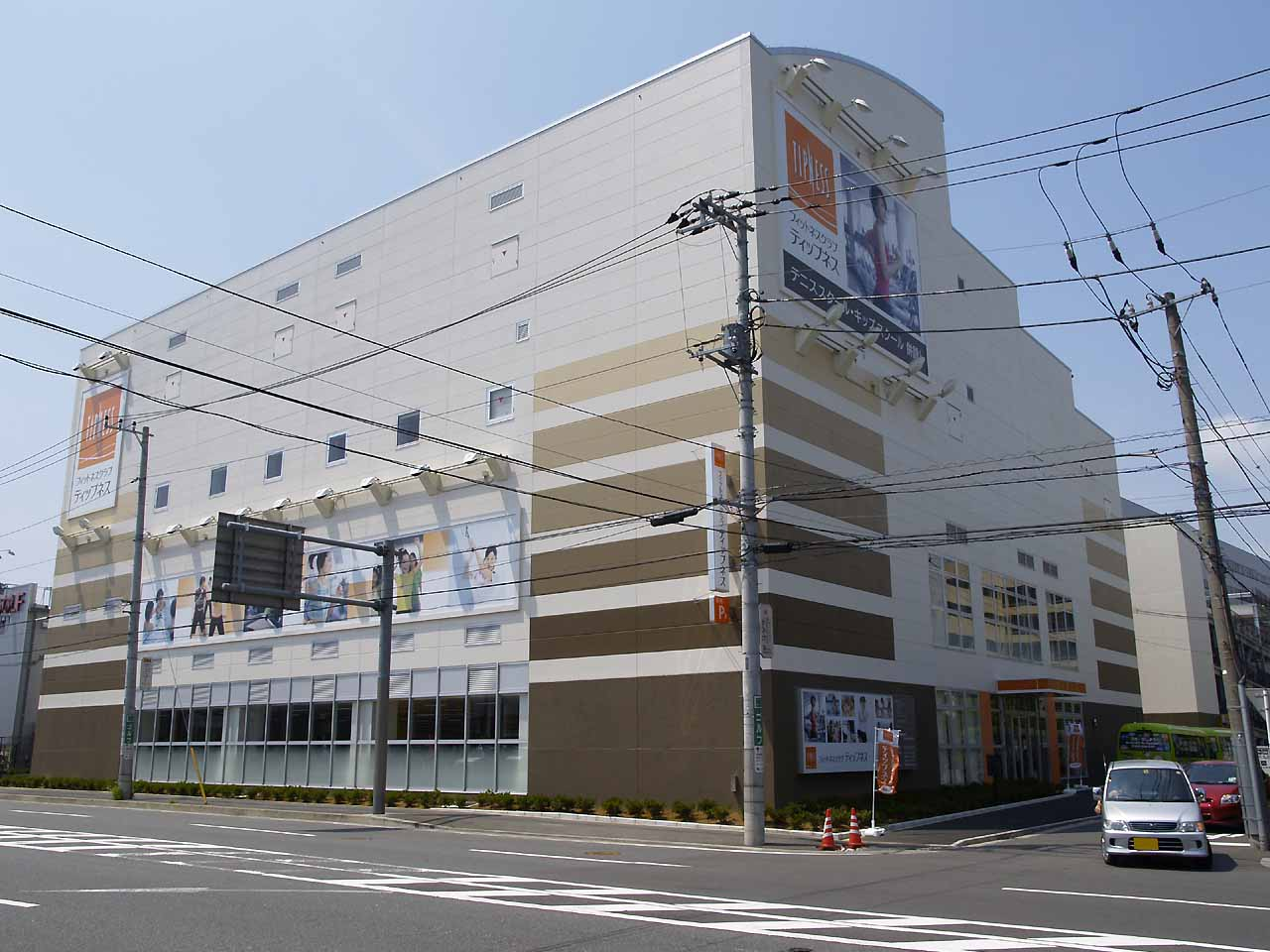 example of Fitness club in Japan: Tipness Kamoi branch. Location: Ikebe-cho, Tsuzuki ward, Yokohama city, Kanagawa Japan (Inside photos are unable to upload, for taking photos prohibited)